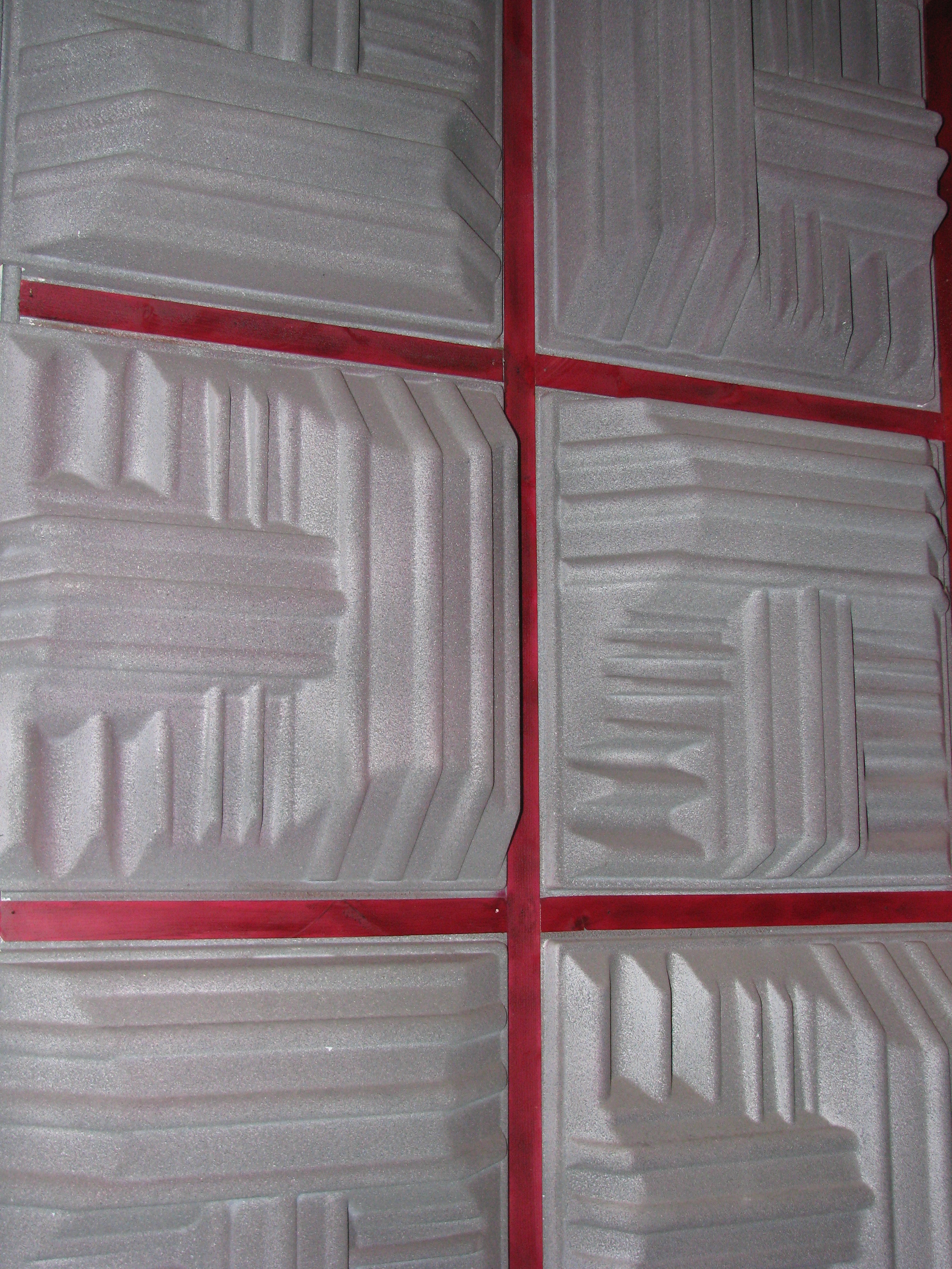 The Enrolling Stones at Downtown Recording, Louisville, KY (1/10/09)